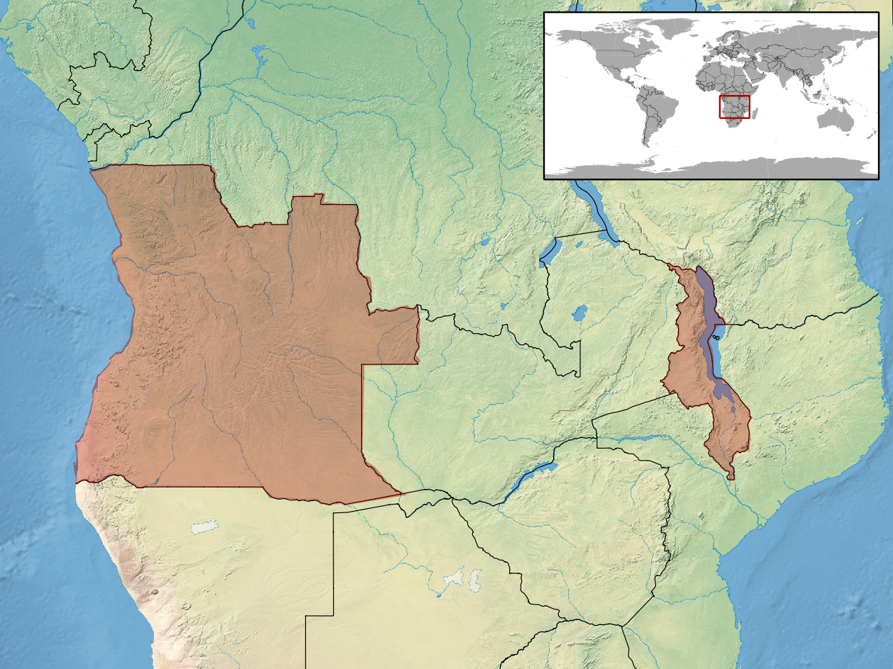 geographic distribution of Trachylepis bocagii